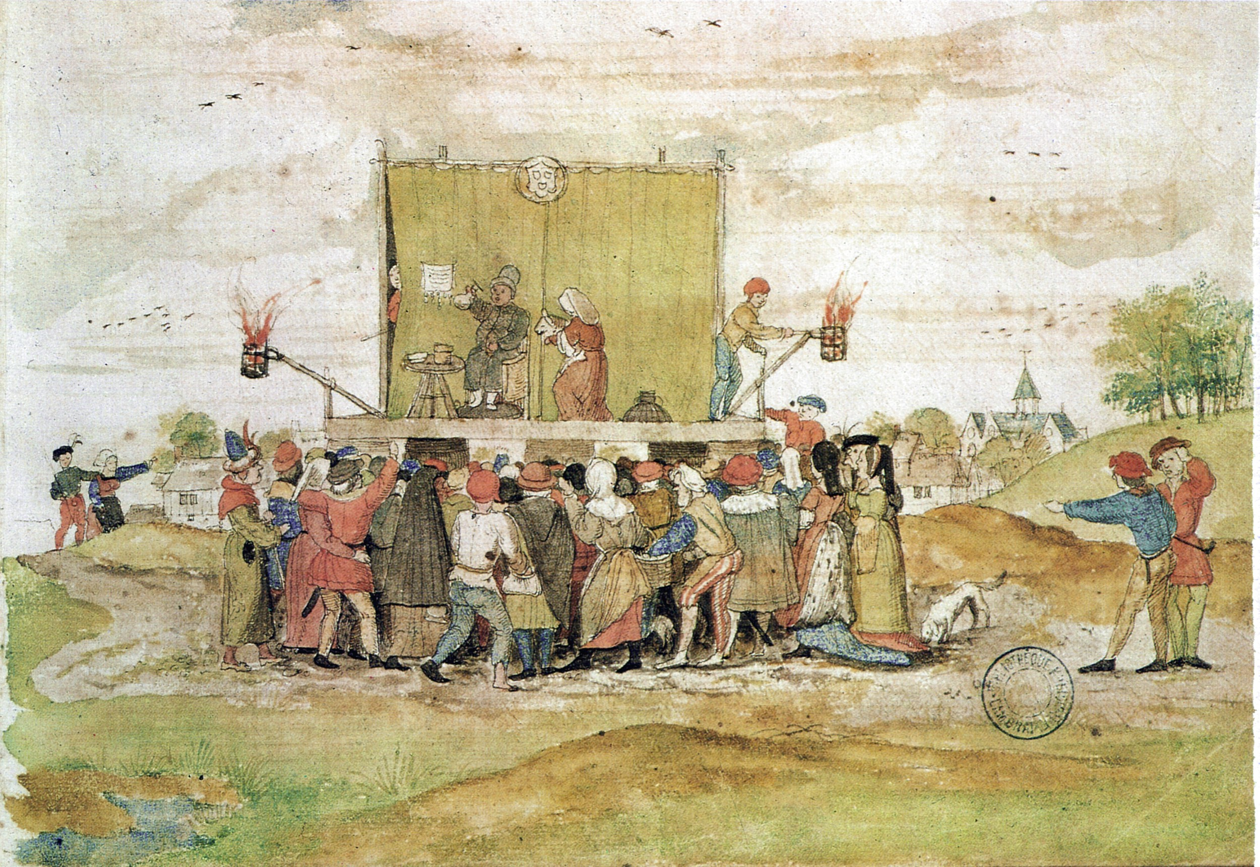 This scene depicts a farce in which a quack doctor examines a farm animal's urine sample to diagnose its illness. Members of the audience are being robbed while distracted by the show, as pointed out by an onlooker at the right. It illustrates a "booth stage", a platform of planks raised on barrels or trestles with a curtained "backstage" area. This medieval design was easily set up and taken down, either for storage or to move to another town or village. They might be set up in the yard of an inn, a marketplace, or village green. The portable booth stage continued in use into the 18th century, both for seasonal events like fairs and for touring productions, which might include not only actors but minstrels, jongleurs, and mountebanks. This image originates in a 1542 songbook from Bruges, Chansonnier de Zeghere van Male, (Recueil de Chants Religieux et Profanes), Cambrai Bibliothèque municipale, Ms 126, folio 53r.